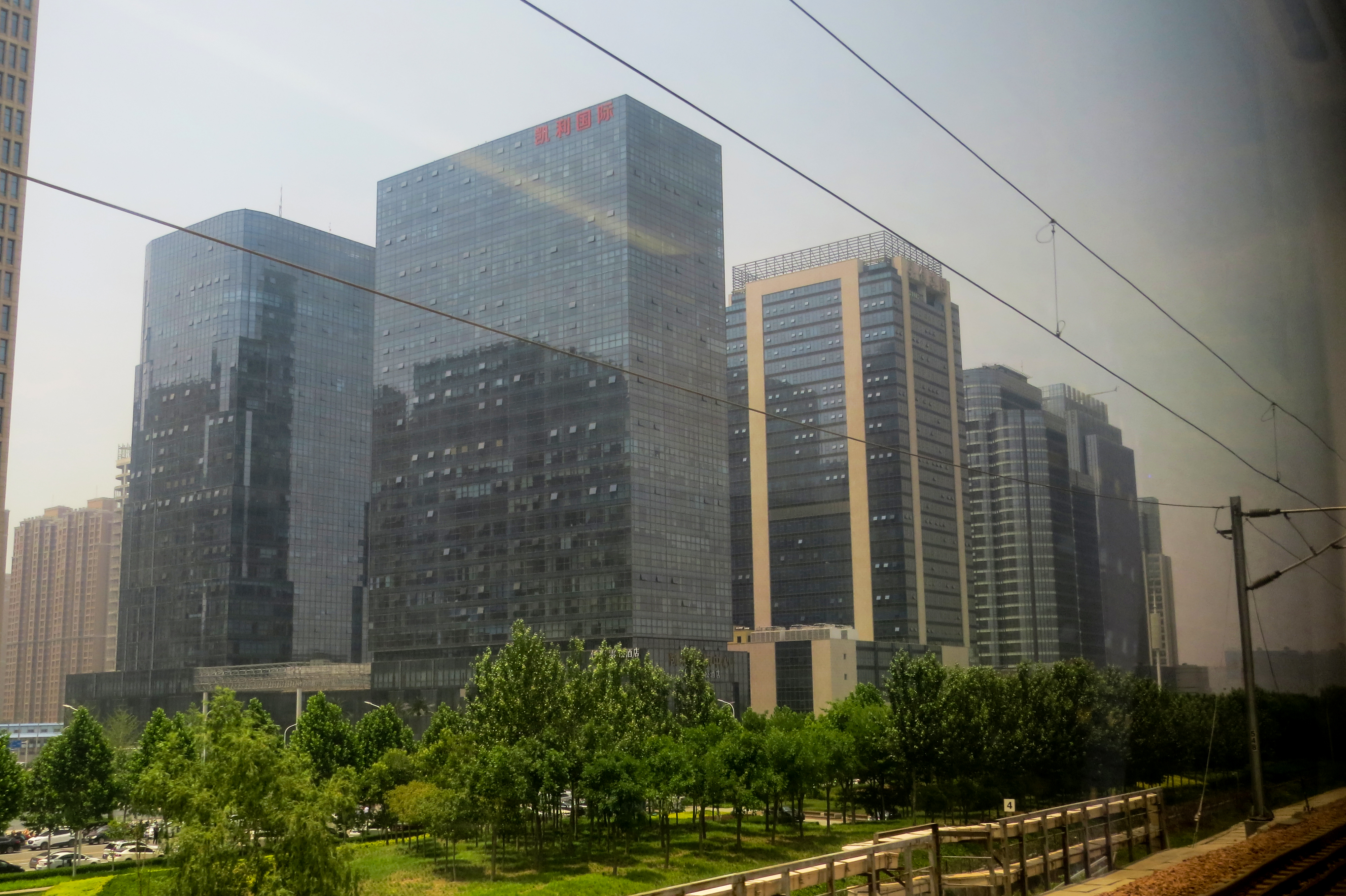 Seen from the northbound G662 on approach to Zhengzhoudong Station.